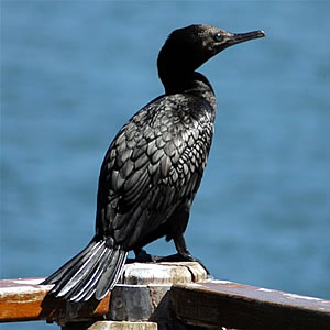 Bird, Little Black Cormorant, Phalacrocorax sulcirostris